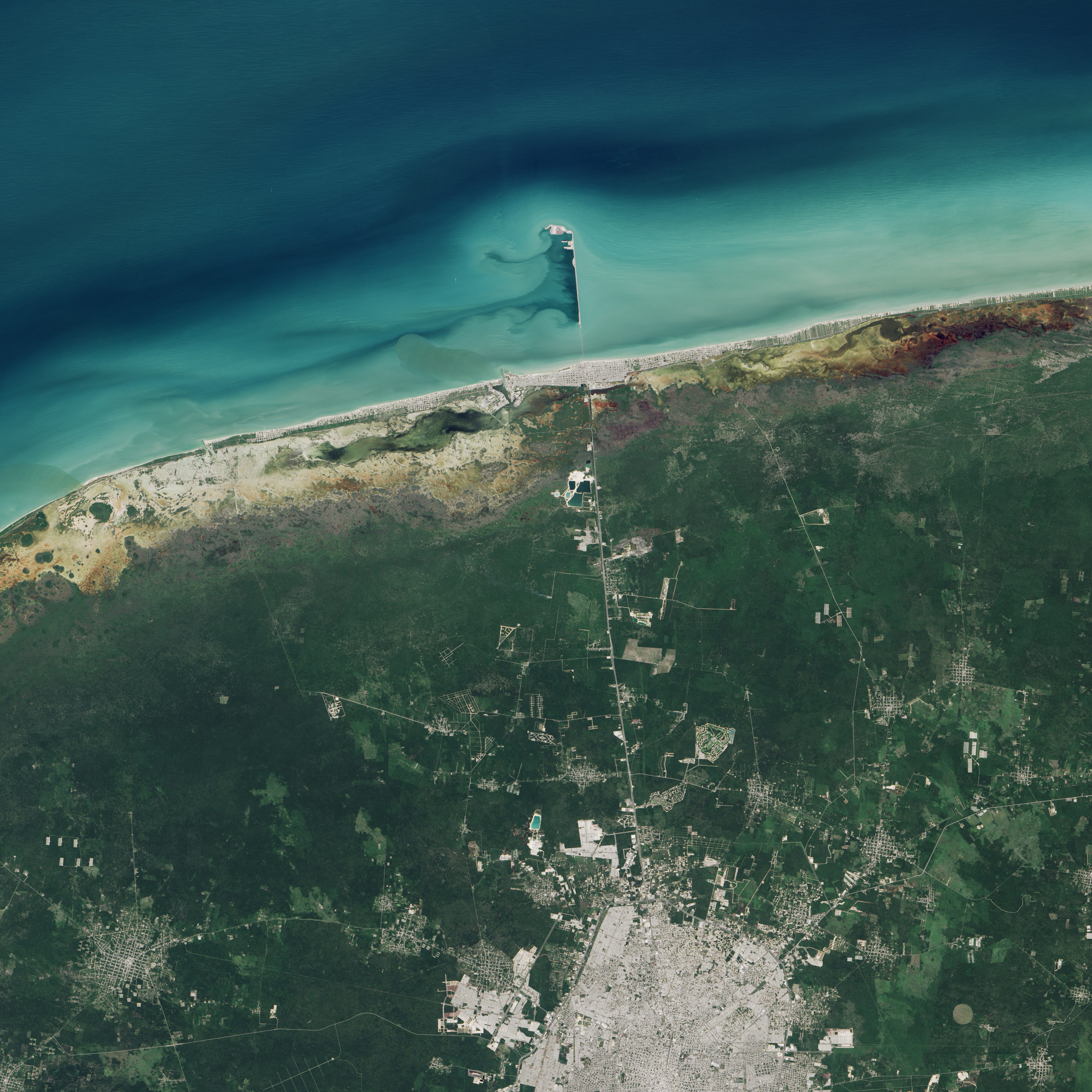 The Operational Land Imager (OLI) on Landsat 8 captured this image of Progreso's pier on November 5, 2014. According to Gabriela García-Rubio of the Ensenada Center for Scientific Research and Higher Education, light turquoise areas offshore are probably shallower than the darker areas. Prevailing winds here typically blow from the east-northeast, producing short-period waves and carrying sediment westward along the shore.